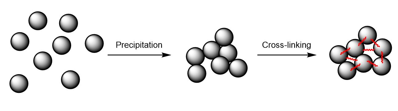 Illustration of the formation of cross-linked enzyme aggregates.